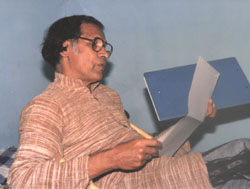 I am Dr. Sebastian Kappen's nephew and this photo of his is from my personal collection of photos. Prof. Sebastian Vattamattam